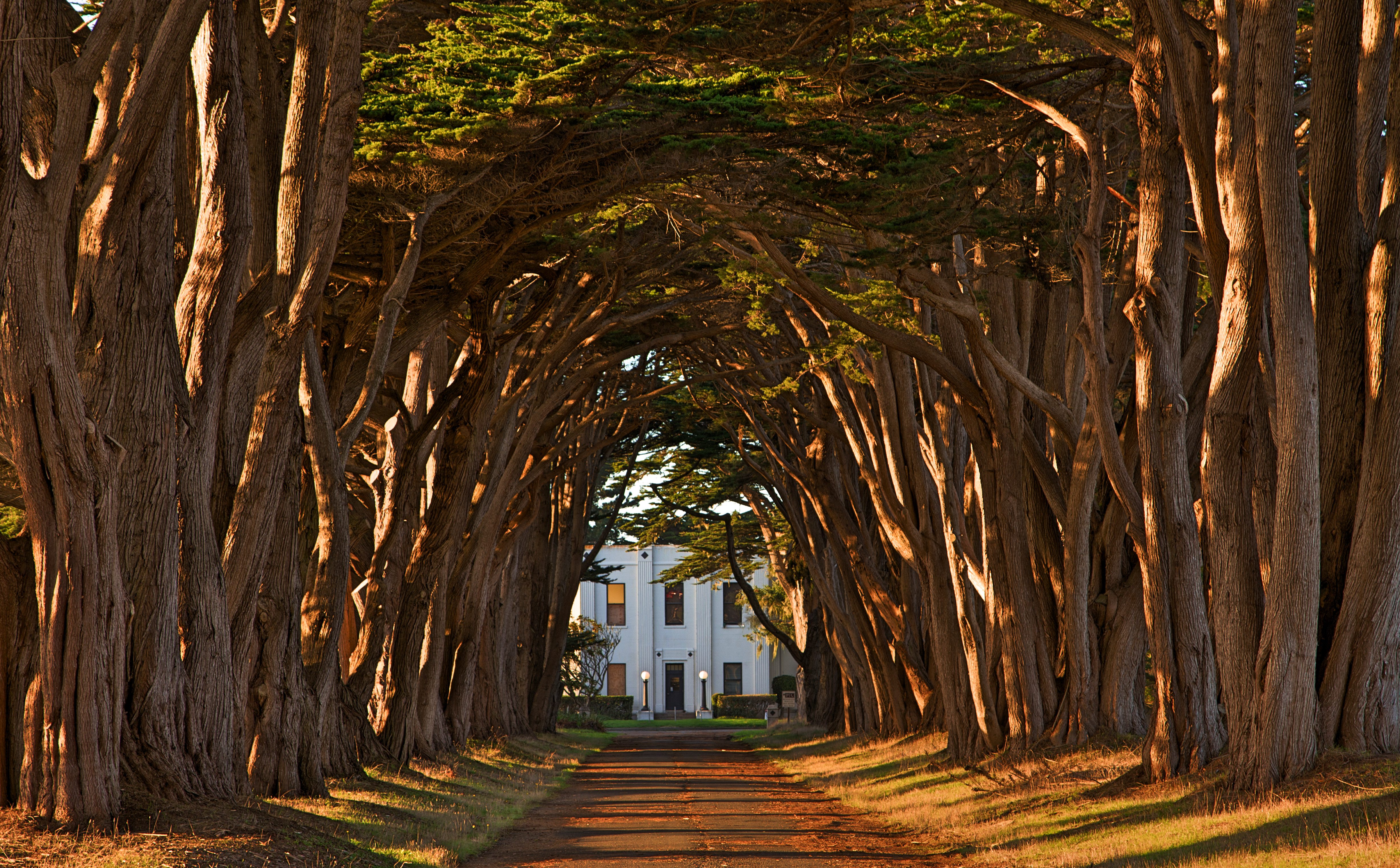 Cypress Tree Avenue at the KPH historic radio station, Point Reyes National Seashore, Marin County, California.